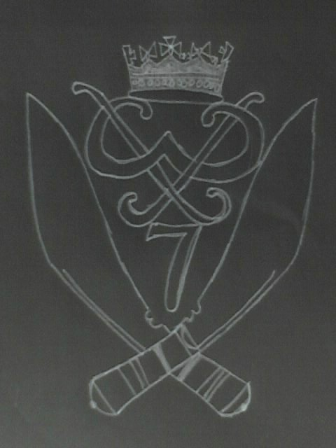 cap badge of 7 gurkha rifles. the crown might not be accurate.